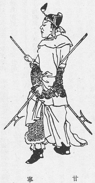 Portrait of the general Gan Ning from a Qing Dynasty edition of The Romance of the Three Kingdoms.